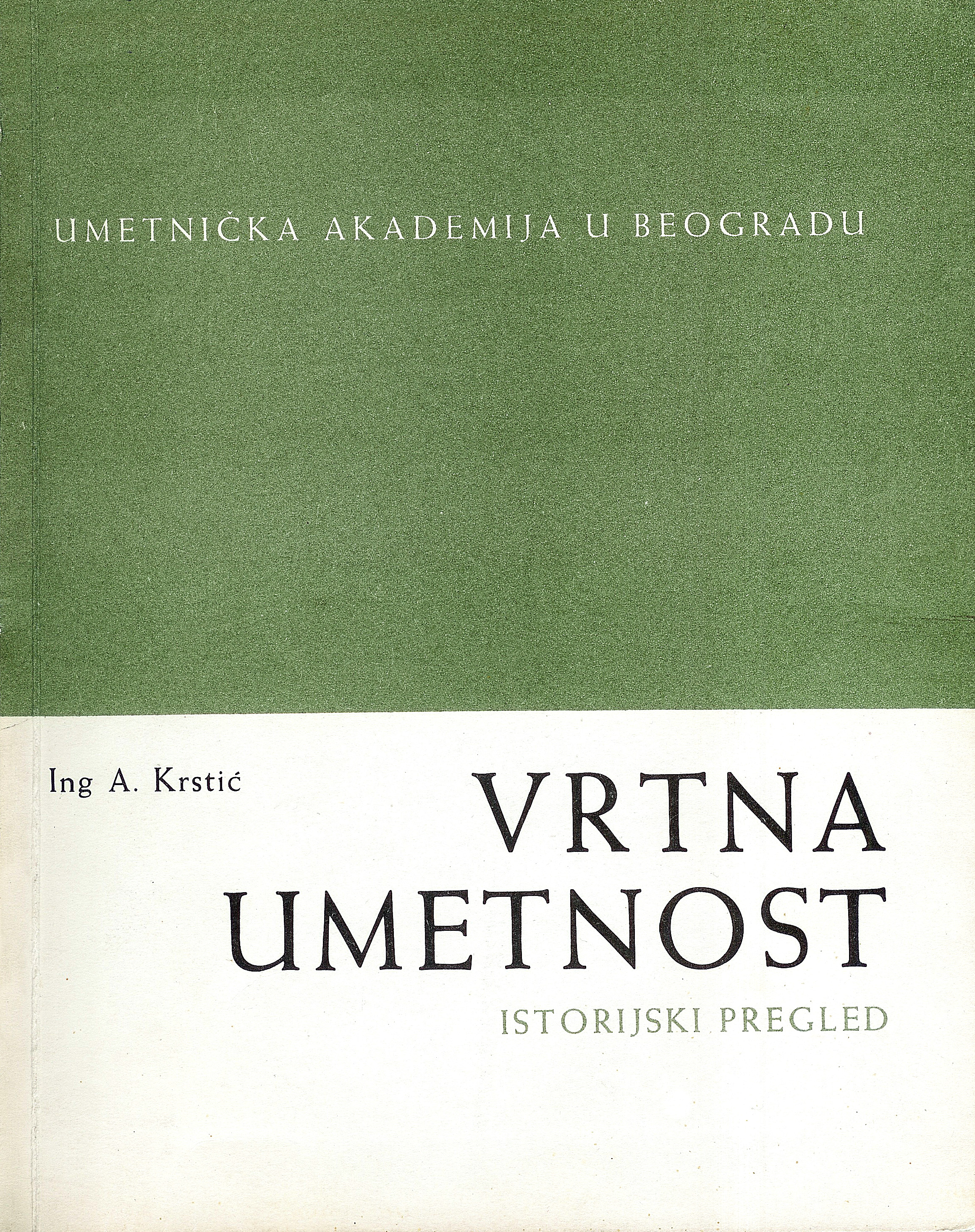 Garden art (book front page) by Aleksandar Krsic